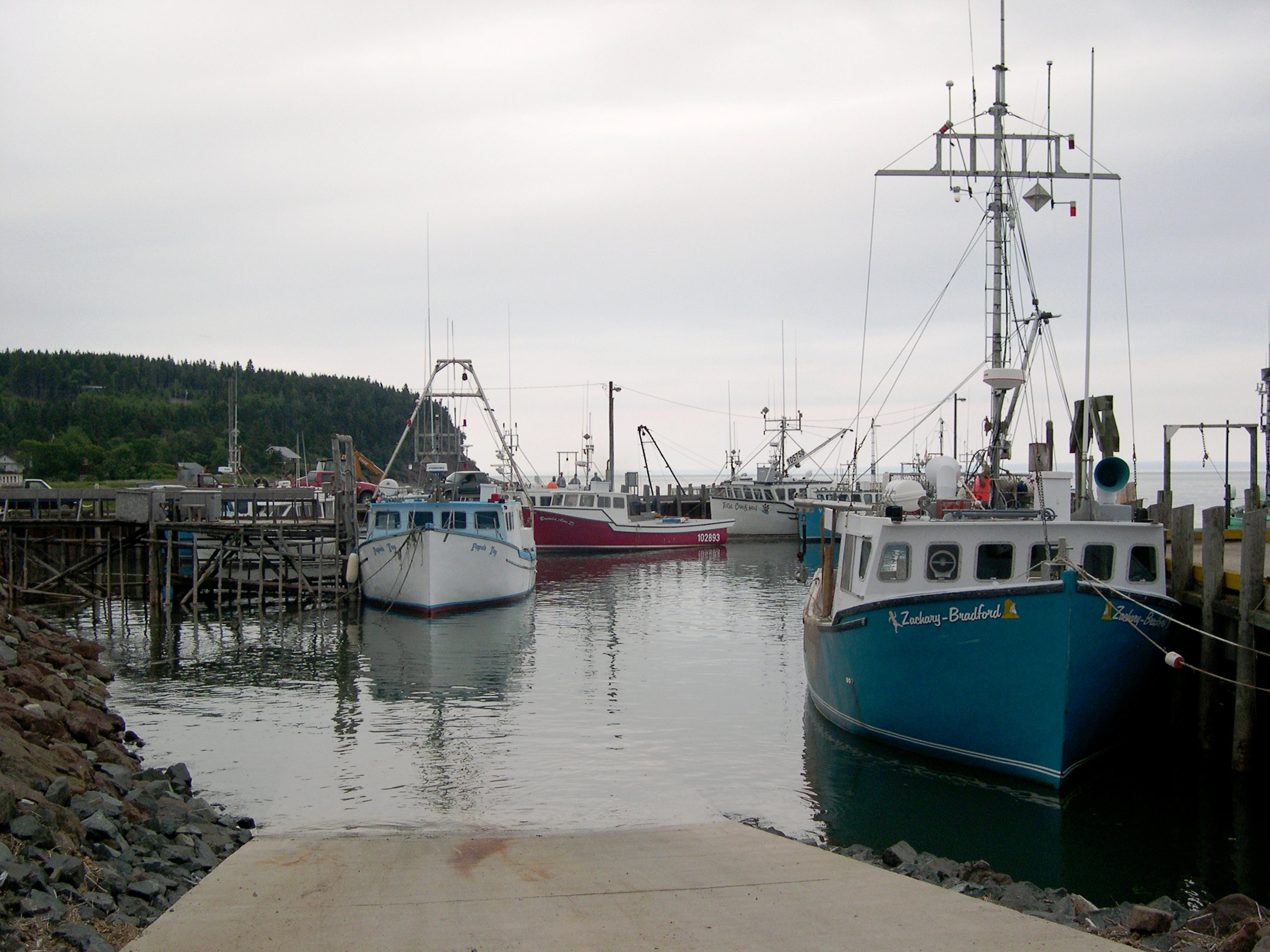 Alma in the Bay of Fundy - TIDE IN Contrast with Image:Bay of Fundy - Tide Out.jpgJune 28 - July 16, 2003